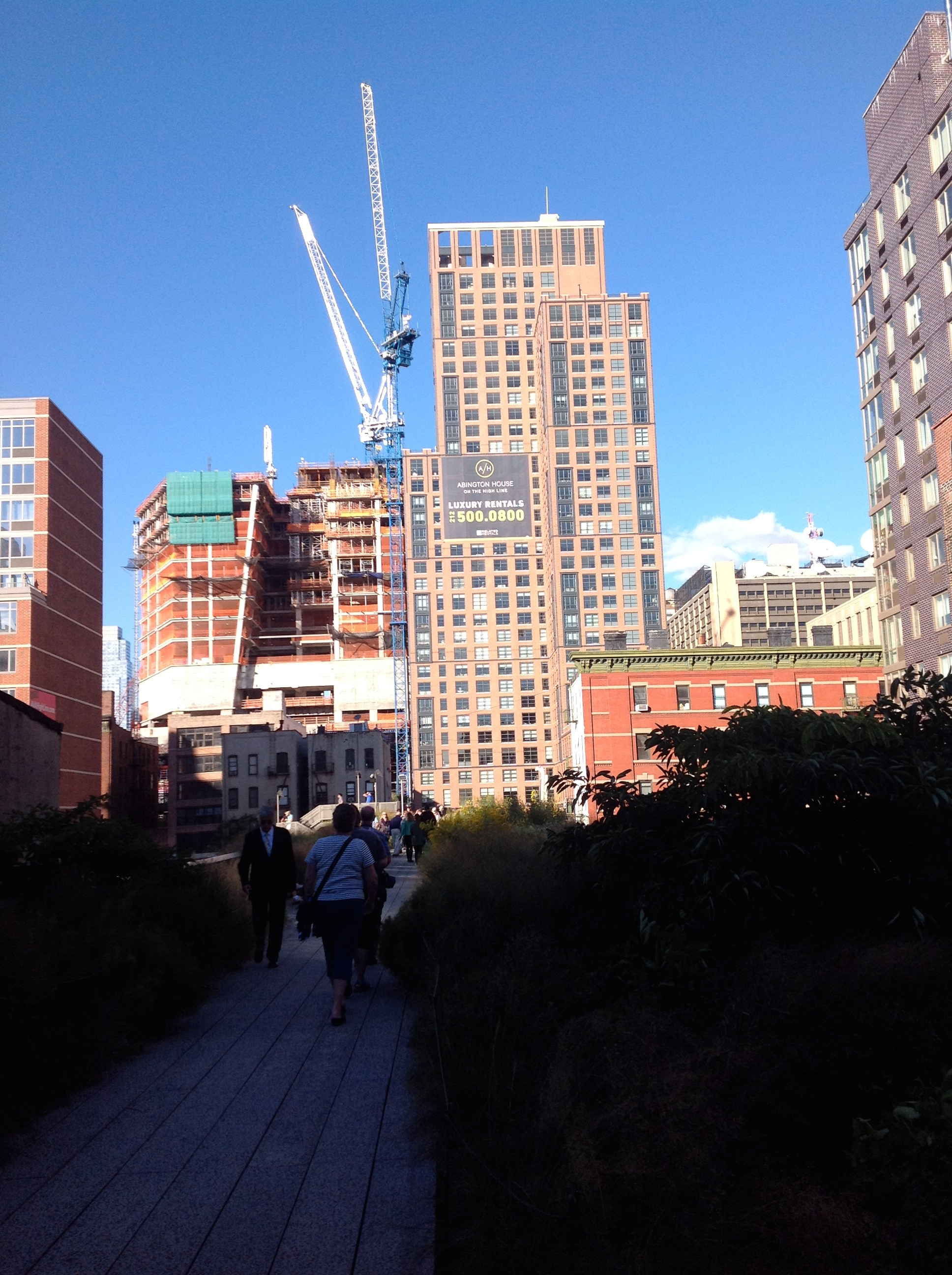 500 West 30th Street in New York City, from the High Line (New York City), September 2014. 10 Hudson Yards is in background.